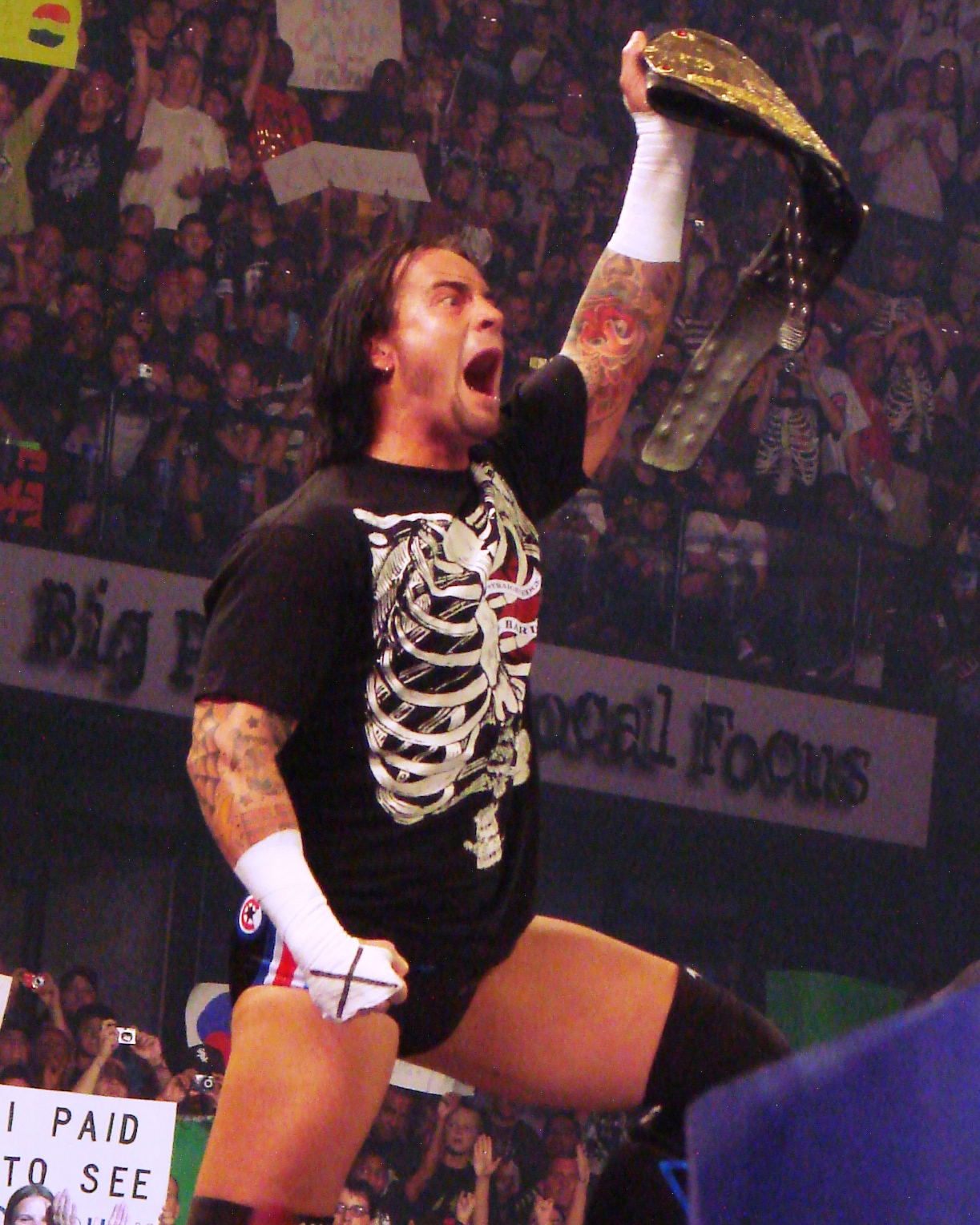 World Heavyweight Champion CM Punk at WWE Raw. Allstate Arena, Rosemont IL. Taken by myself, rotated, cropped, and brightened.